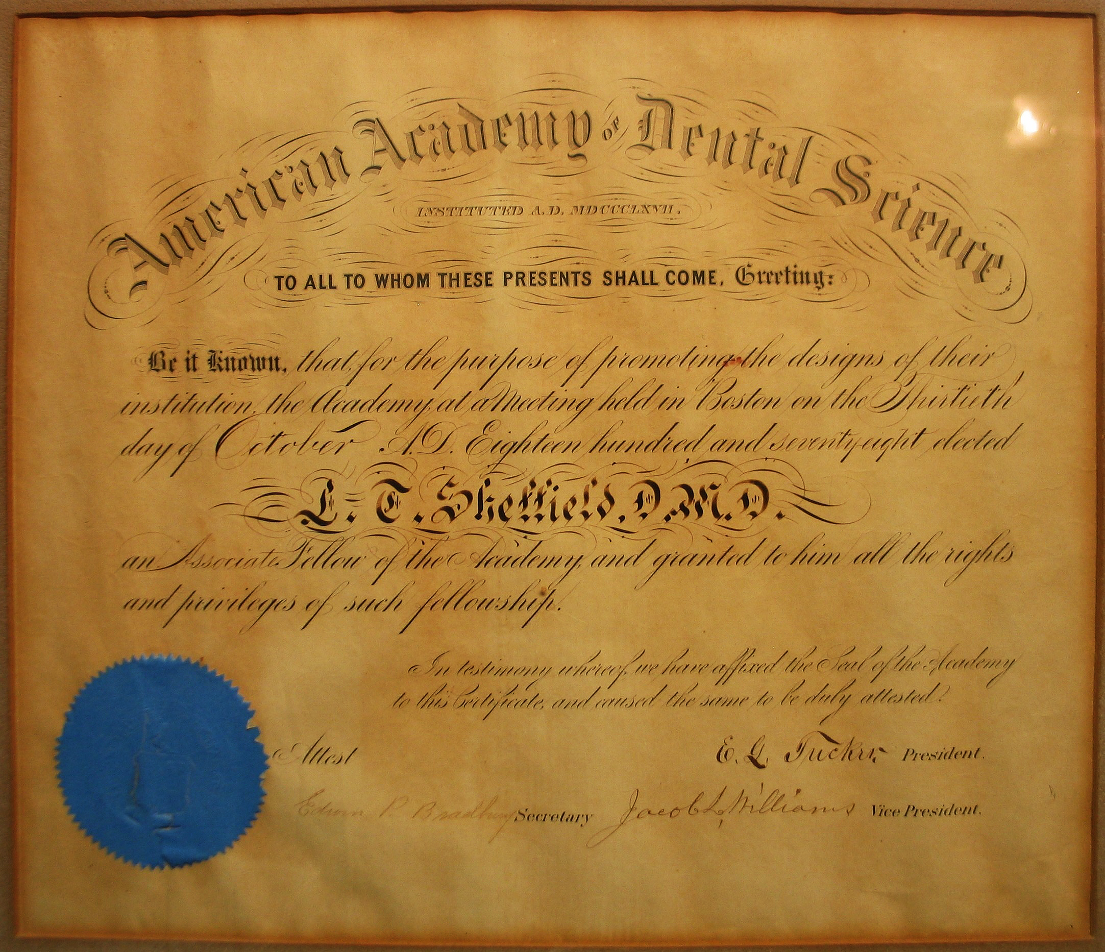 Lucius T. Sheffield Harvard Diploma